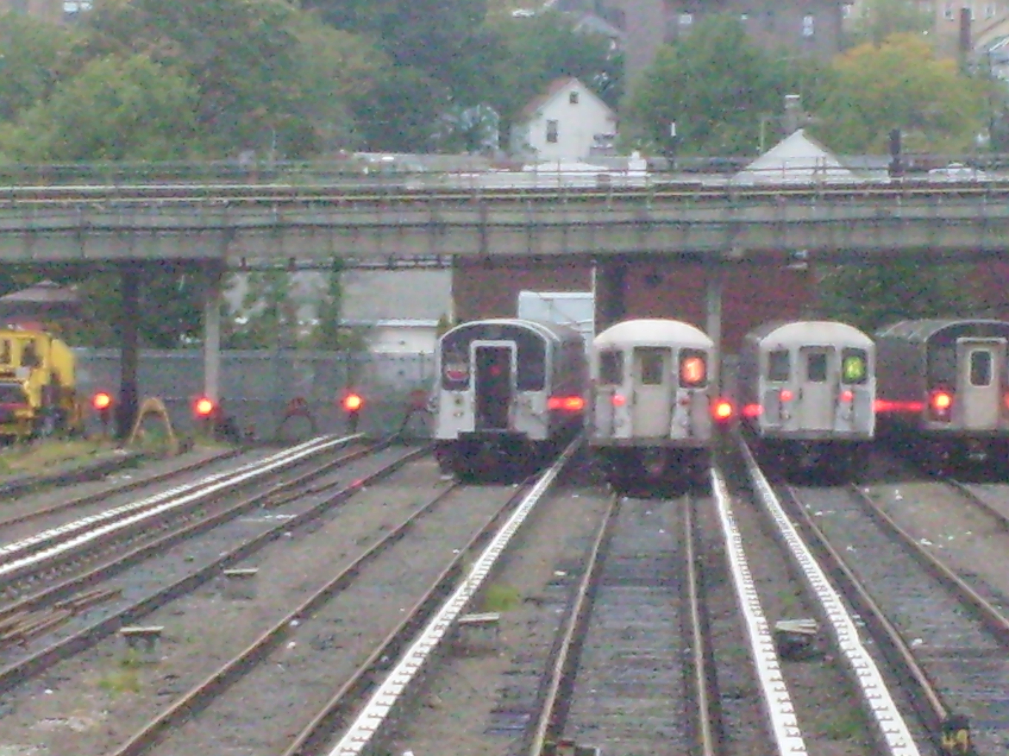 R110A at the 239th Street Yard in the Bronx, left of the R62A 1 Train